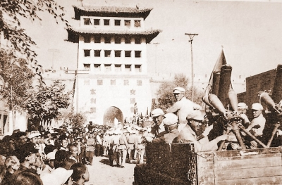 PLA Army entering Lanzhou city after winning Lanzhou Campaign in Chinese Revolution (1946−1952)